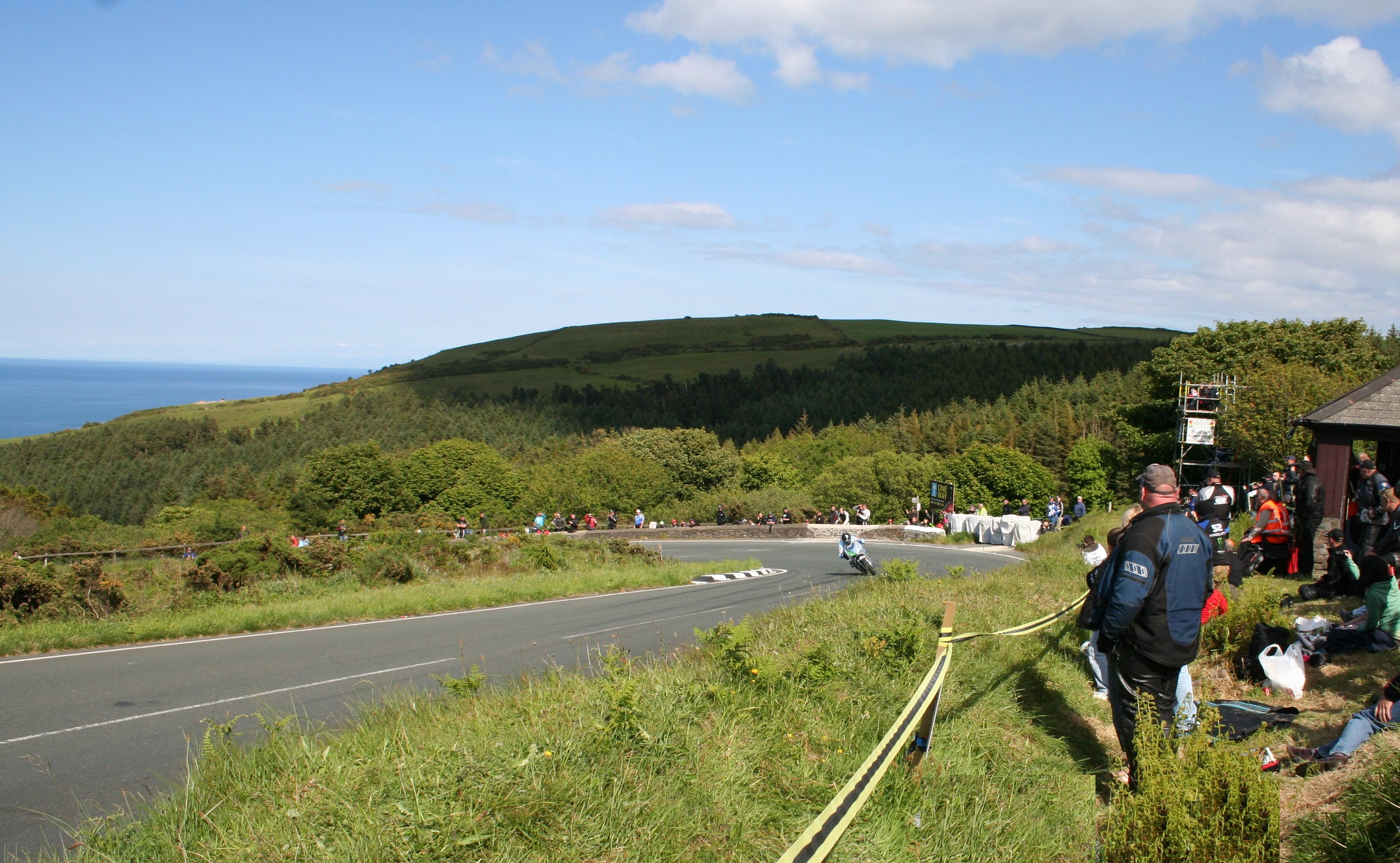 IOMTT2011-TTXGP